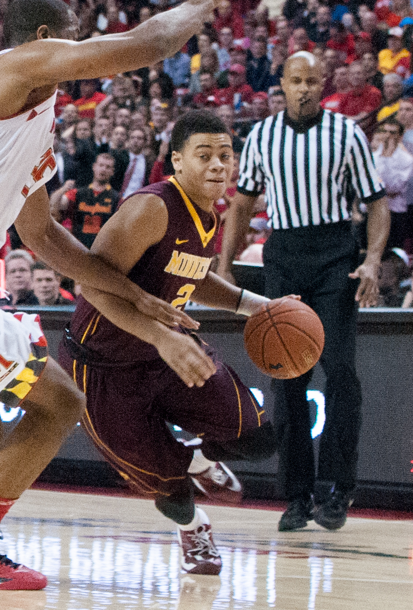 during Maryland's 75-59 win over Michigan State at Xfinity Center on Jan. 17, 2015.